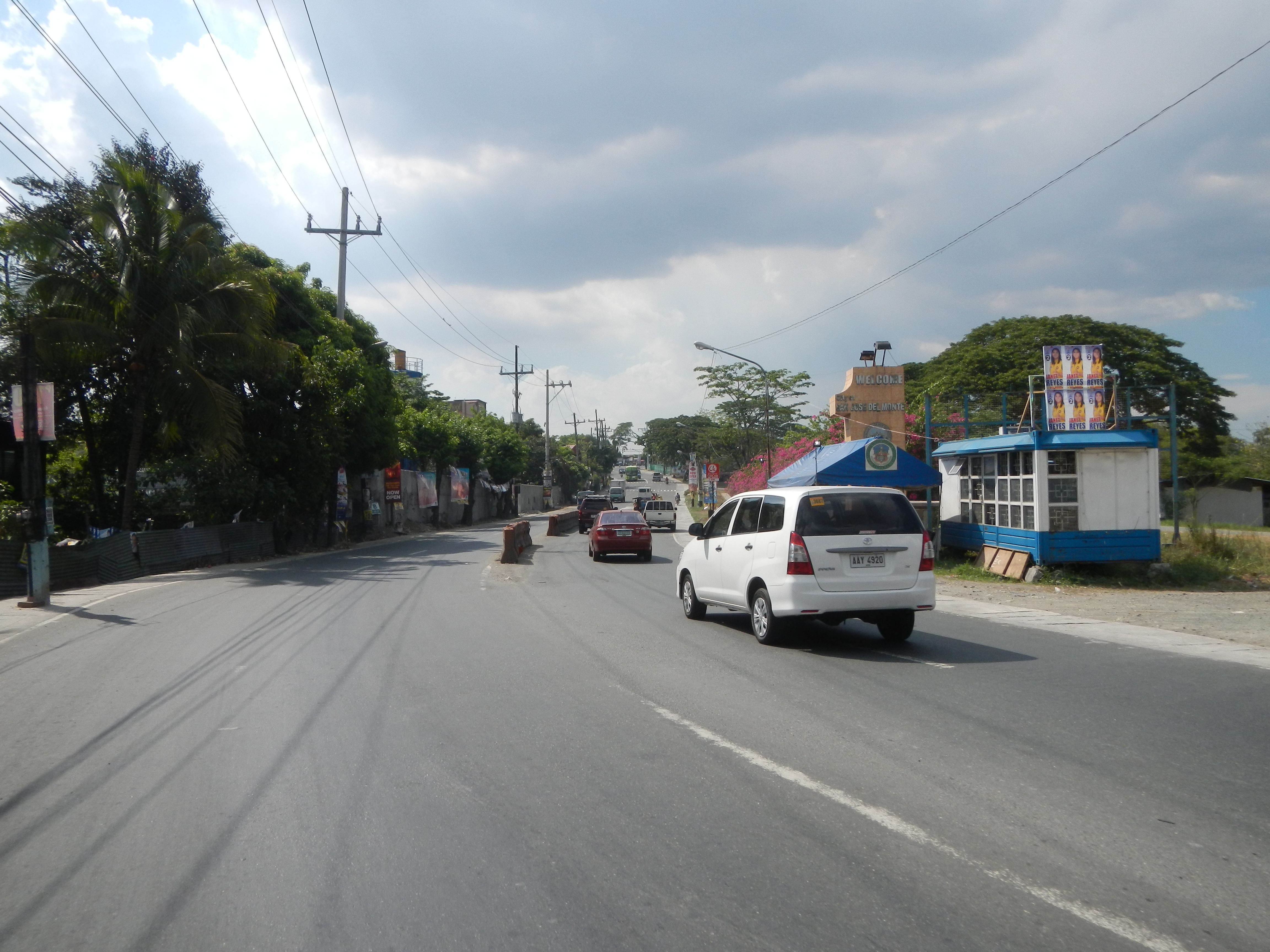 Quirino Highway (Norzagaray, Bulacan) North end: of the Quirino Highway in Norzagaray, Bulacan Welcome arch in San Jose del Monte, Bulacan located in Barangay Minuyan I, Sapang Palay, City of San Jose del Monte, along Quirino Highway, including Republic Cement a CRH-Aboitiz Company, Norzagaray, Bulacan beside and to, from Road 2 corners Road 5 and 10, City of San Jose del Monte beside Barangay Bigte, Norzagaray, Bulacan (along the Bigte-San Mateo, Norzagaray, Bulacan Farm to Market Provincial Road from and along the General Alejo G. Santos Highway (Angat-Norzagaray, Bulacan section).